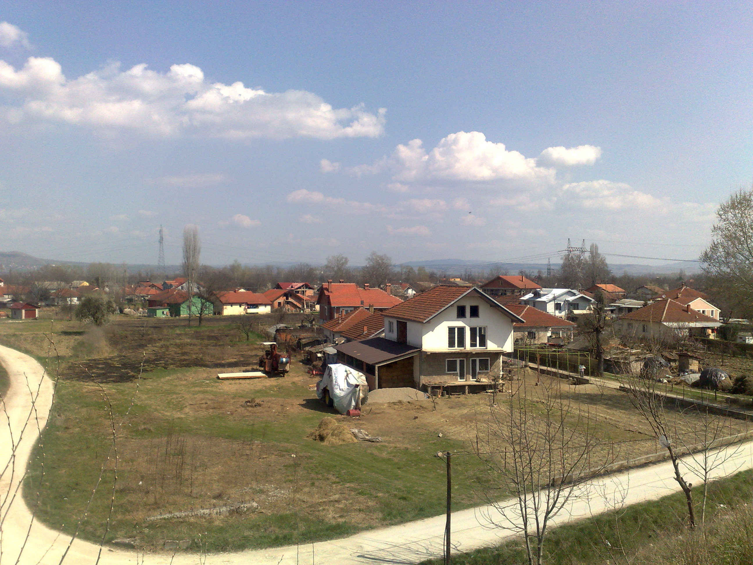 Village of Jurumleri, near Skopje, Macedonia